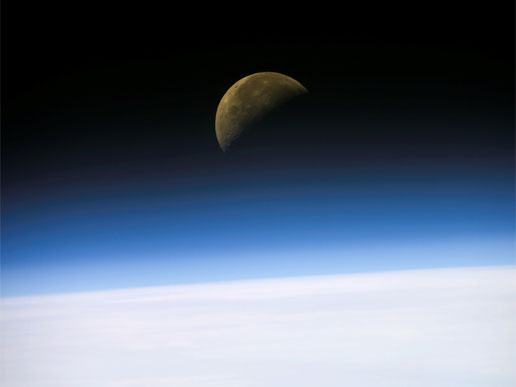 A quarter moon is visible in this oblique view of Earth's horizon, recorded with a digital still camera aboard the Space Shuttle Columbia.